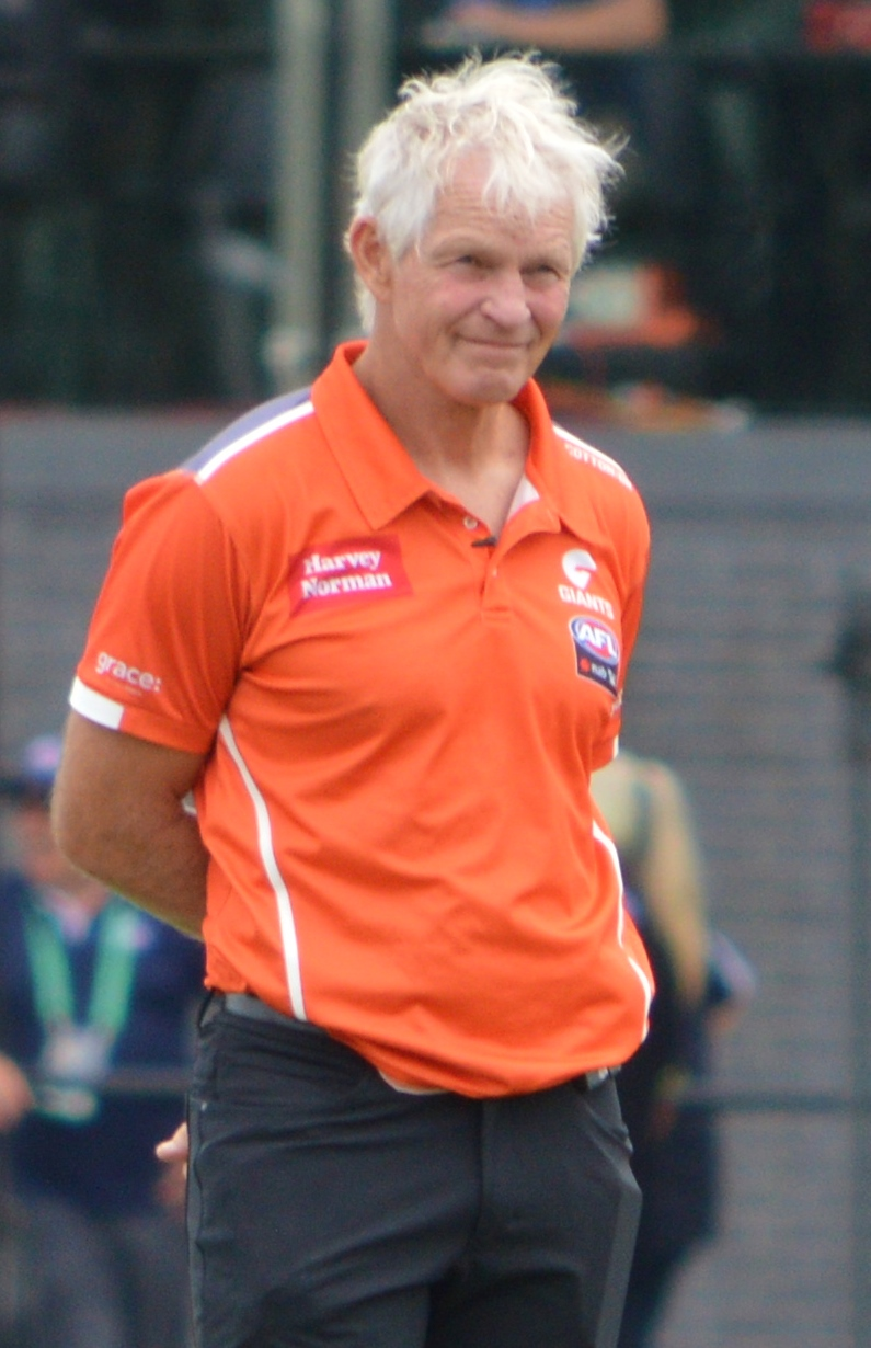 Alan McConnell during the round 3, 2018, AFL Women's match between Collingwood and Greater Western Sydney